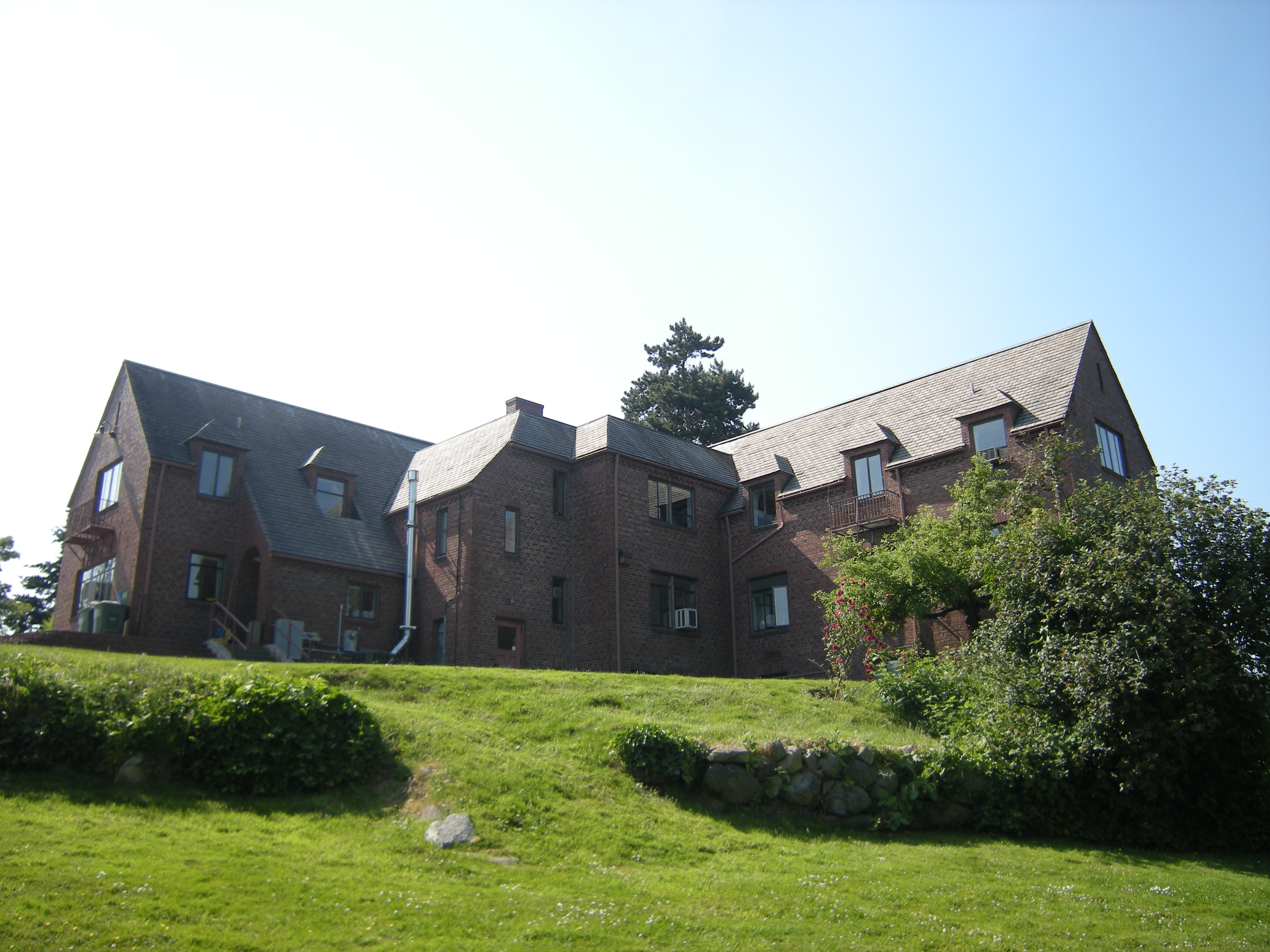 Dormitory of the former Seattle Parental School for Boys, later Luther Burbank School, 2040 84th Avenue SE in Luther Burbank Park, Mercer Island, Washington. The wooden school buildings are all gone. The surviving brick buildings date from 1929, and are listed as a King County Landmark. This building now houses Mercer Island's Parks and Recreation administration and Youth and Family Services.